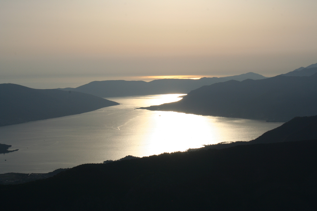 Bay of Kotor